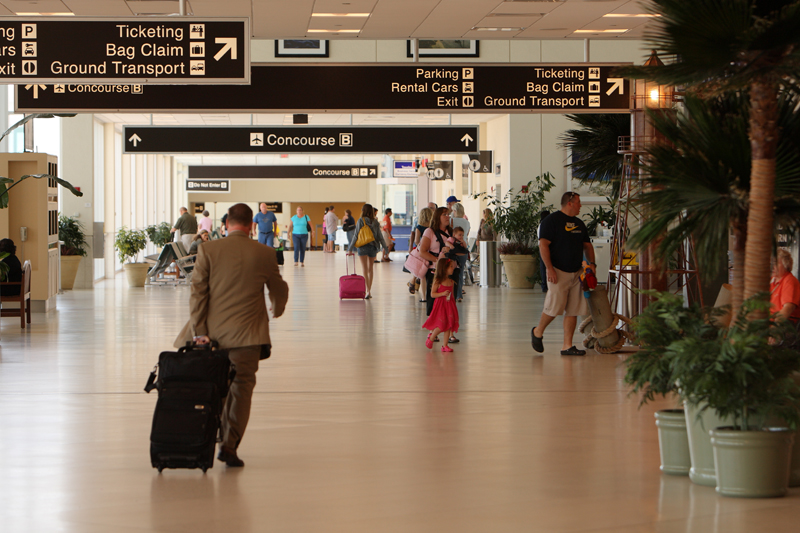 Main Terminal at Southwest Florida International Airport, Fort Myers